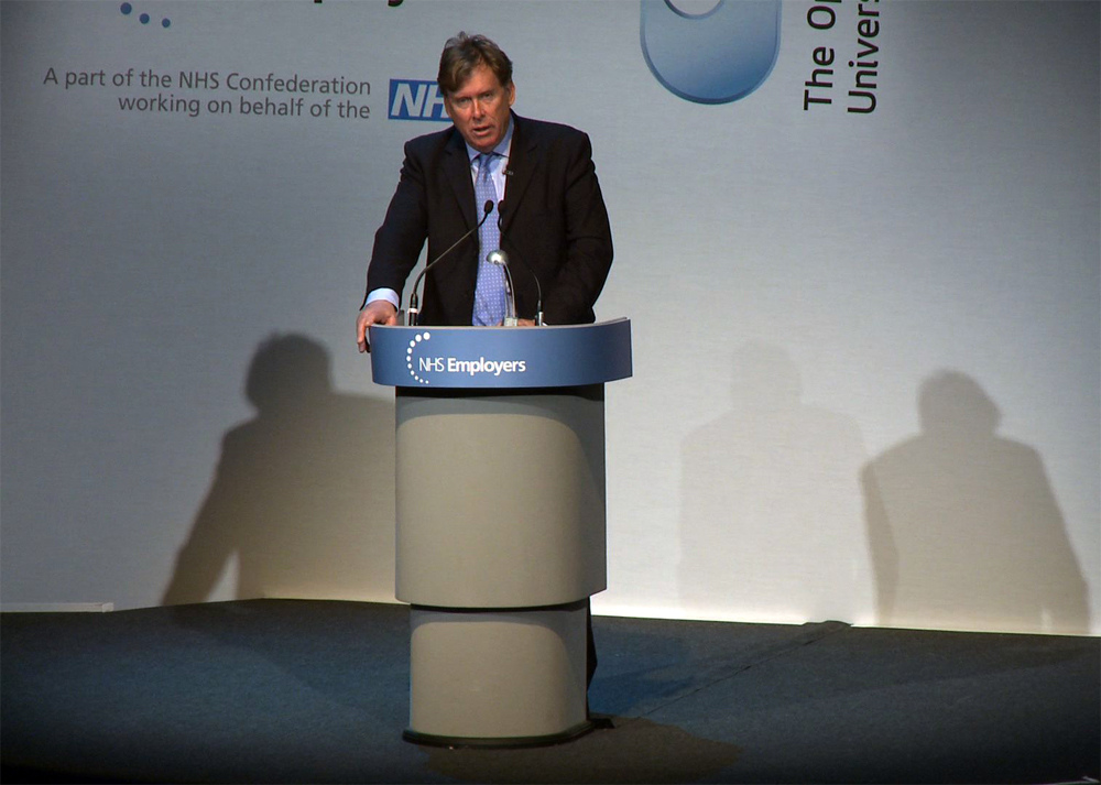 Minister of State for Health